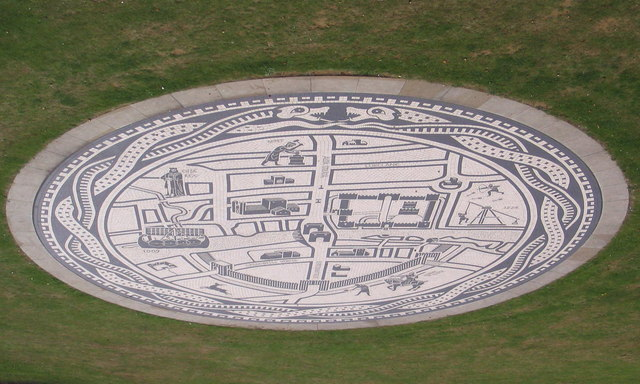 The Bedford snakes A mosaic depicting a map of Bedford and a stylised history of the town, with references to King Offa, a siege, vikings, its mint, the mill and its main streets and churches. The best distant view is from the Castle Mound, but unfortunately the image is upsidedown from that viewpoint - so the one shown is inverted.